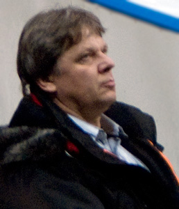 2010 Cup of Russia, free skating.